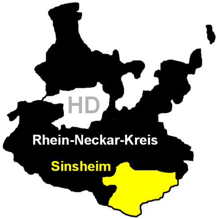 Location of Sinsheim in the Rhein-Neckar-Kreis.